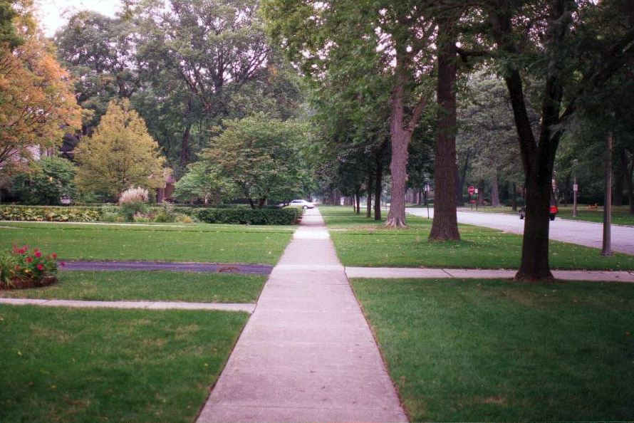 A large boulevard, or tree lawn, in Oak Park, Illinois photopraphed by Stephen Barnecut in September, 1998.